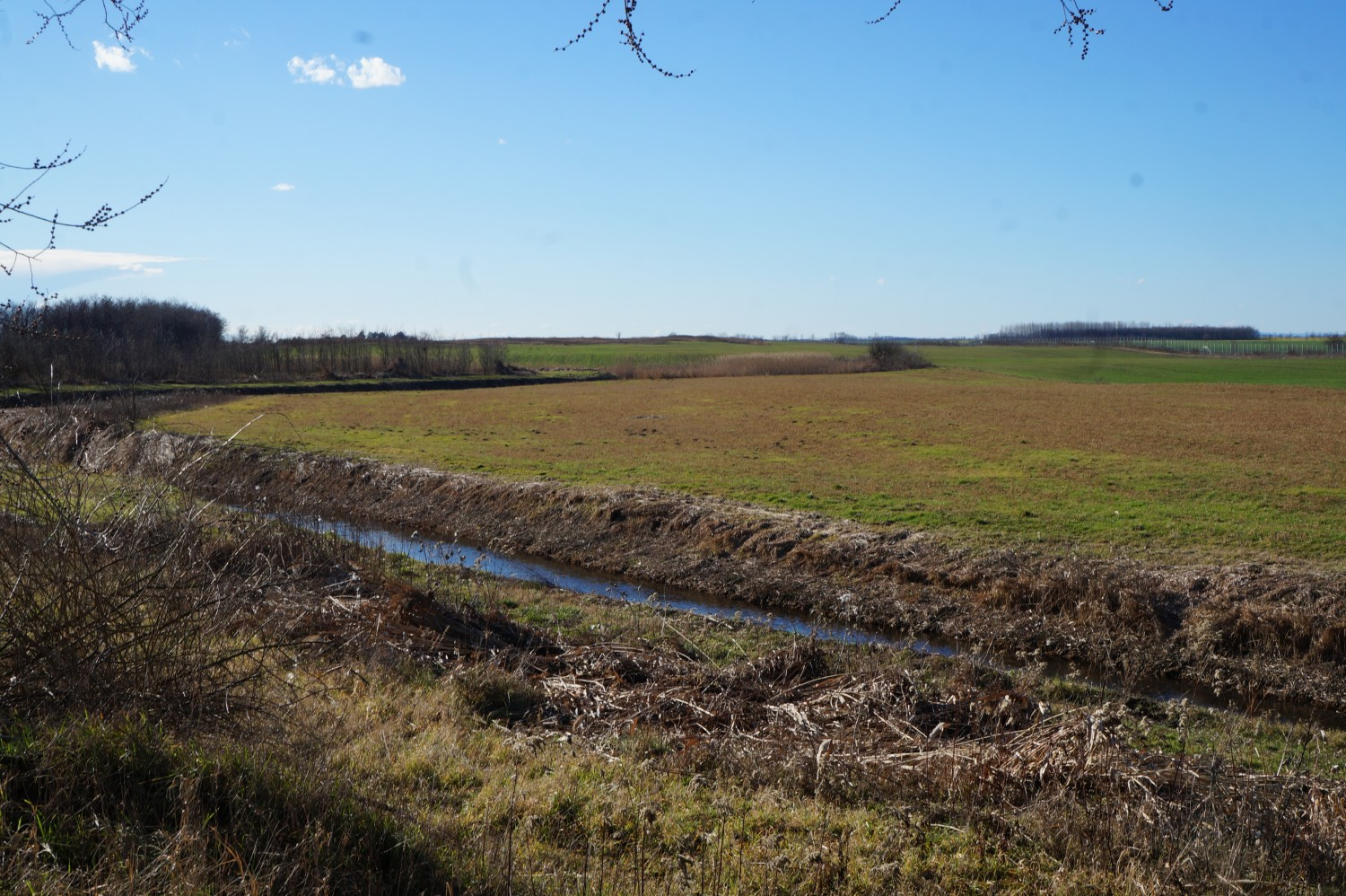 Kígyós (Plazović) creek, Rastina